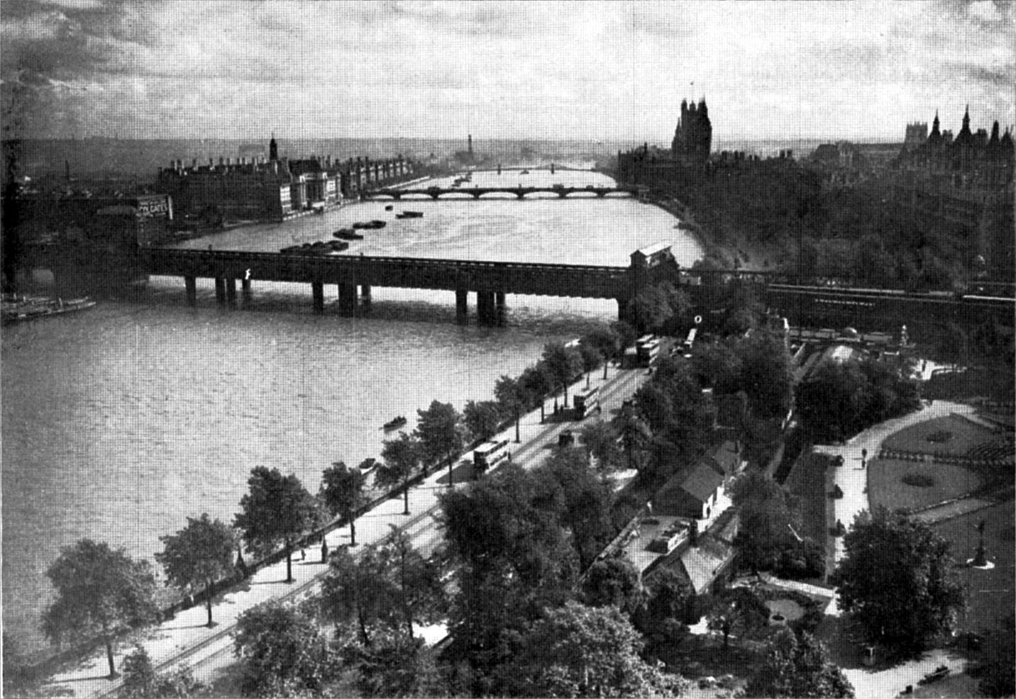 Victoria Embankment, London.